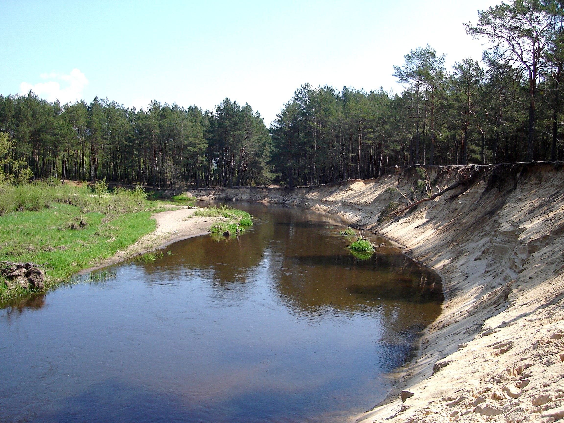 Luciaza river in Przygłów